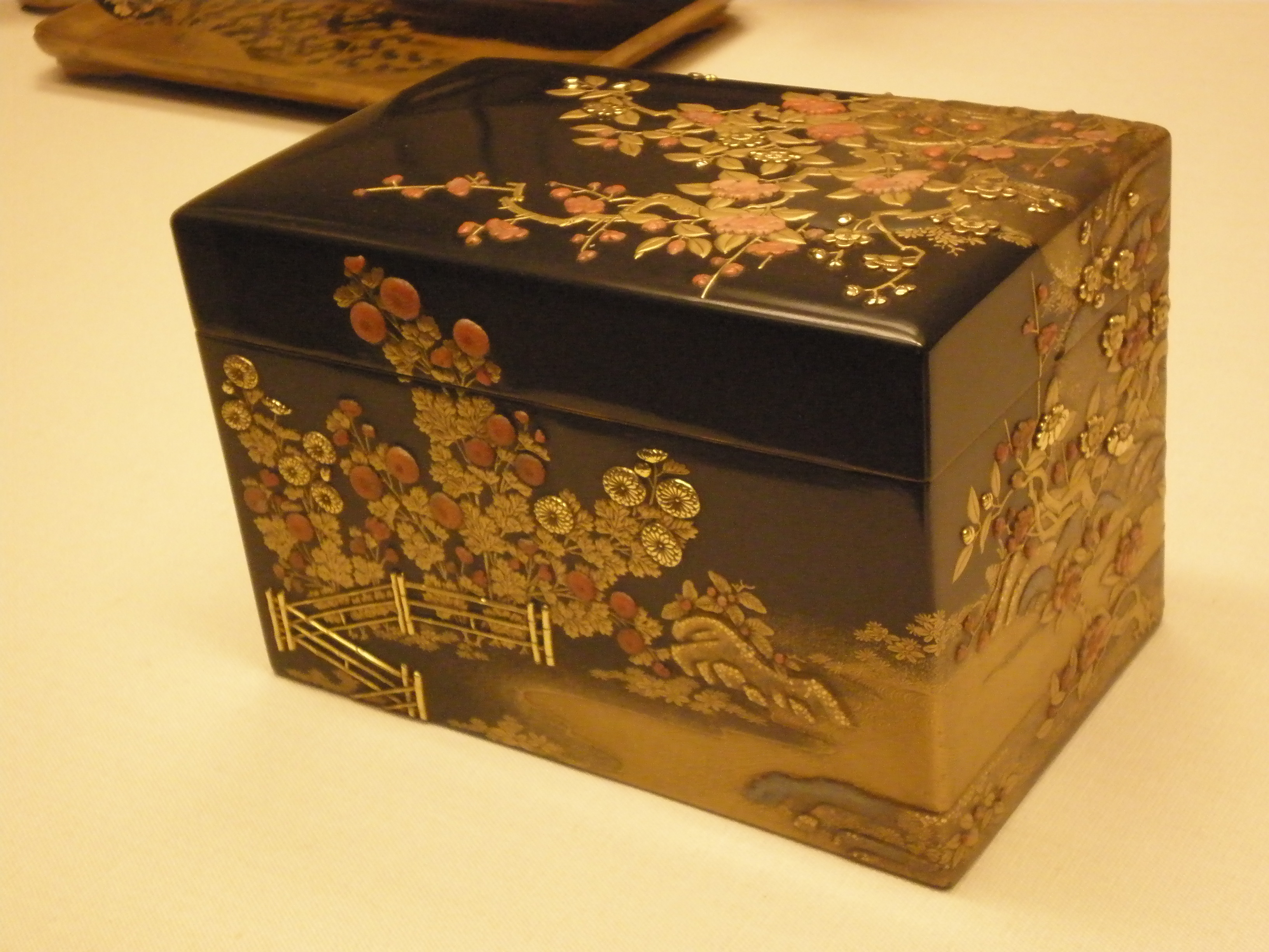 Box for incense utensils 1700-50 Japan Lacquered wood Box for incense utensils, wood covered in black lacquer with gold and silver takamaki-e lacquer, coral and gold with design of plums, camellias and chrysanthemums in a landscape, Japan, about 1700-1750. Salting Bequest Collection ID: W.356-1910 This photo was taken as part of Britain Loves Wikipedia in February 2010 by David Jackson.